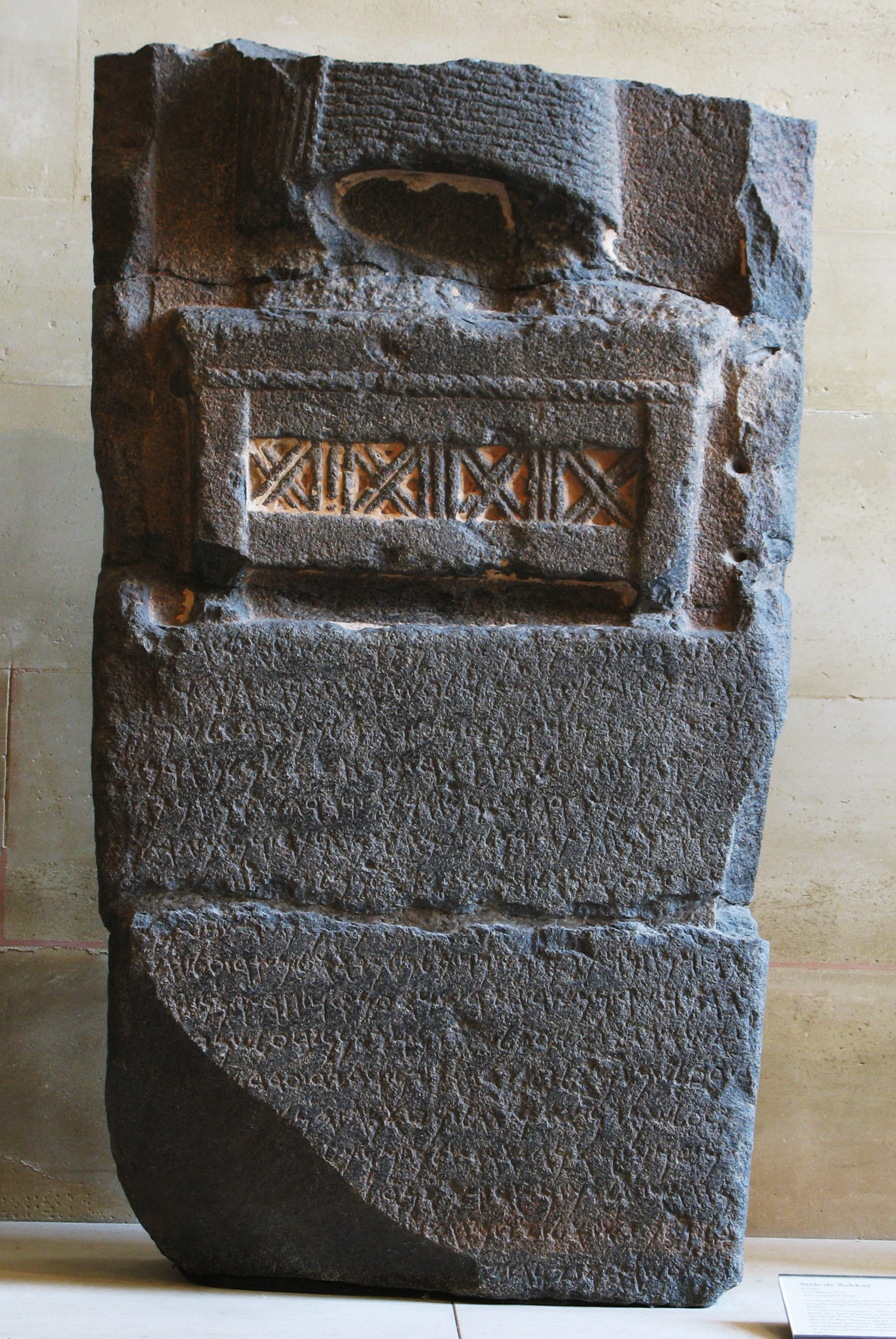 ArtistUnknownDescription Zakkur stele . Marks the taking of the throne of Hamath by king Zakkur Then, I lifted my hands towards Ba`al Shamîm, and Baal Shamaïn talked to me through seers, and Baal Shamaïn told me "do not fear! for it is me who made you reign and it is me who shall stand by your side, and it is me who shall free you from all the kings who besiege you [1] Dimensions13 cm high, 62 cm wideCurrent location (Inventory)Louvre Museum Native nameMusée du LouvreLocationParisCoordinates48° 51′ 37″ N, 2° 20′ 15″ E Established1793Website control : Q19675 VIAF: 257711507 ISNI: 0000 0001 2260 177X ULAN: 500125189 LCCN: n80020283 NLA: 35912436 WorldCat Sully Rez-de-chaussée Levant Salle CAccession numberAO 8185Credit lineBought in 1922Source/PhotographerRama Zakkur stele . Marks the taking of the throne of Hamath by king Zakkur Then, I lifted my hands towards Ba`al Shamîm, and Baal Shamaïn talked to me through seers, and Baal Shamaïn told me "do not fear! for it is me who made you reign and it is me who shall stand by your side, and it is me who shall free you from all the kings who besiege you [1]